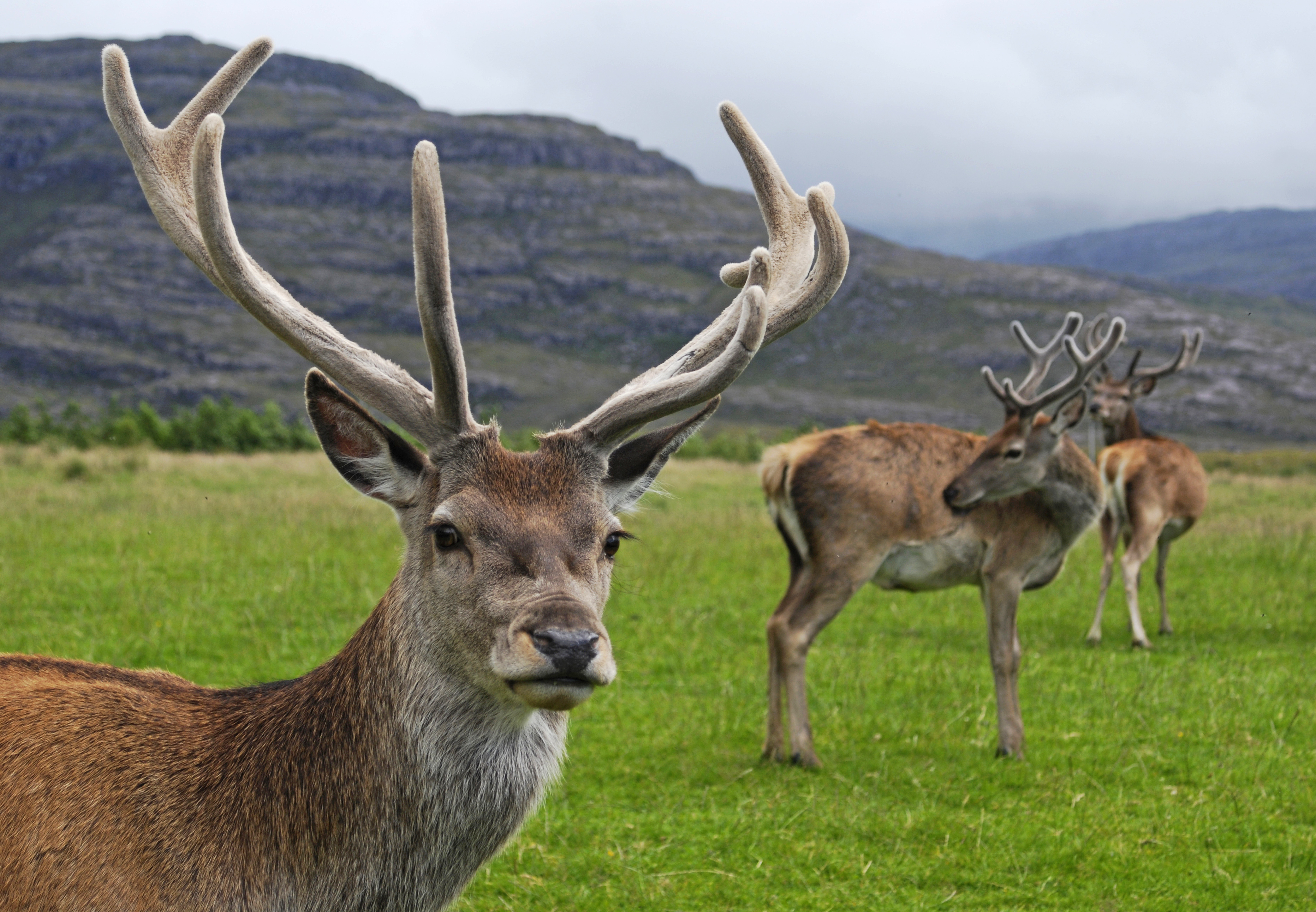 Red deer stag (Cervus elaphus) with velvet antlers in Glen Torridon, Scotland